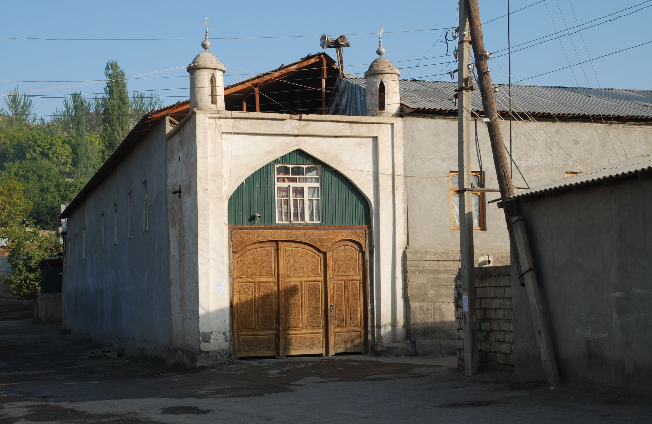 Chorku, Isfara district, mosque